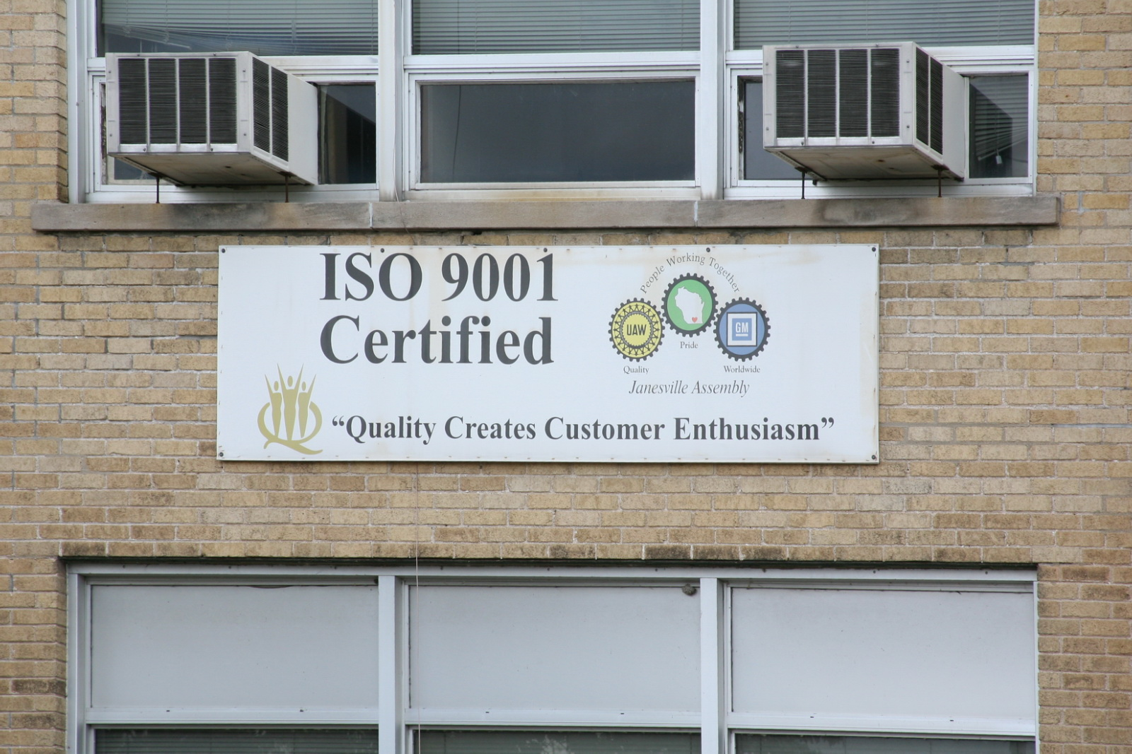 "ISO 9001 Certified" sign on exterior of Janesville GM Assembly Plant